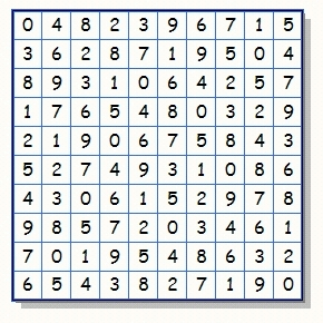 10x10 Latin Square.